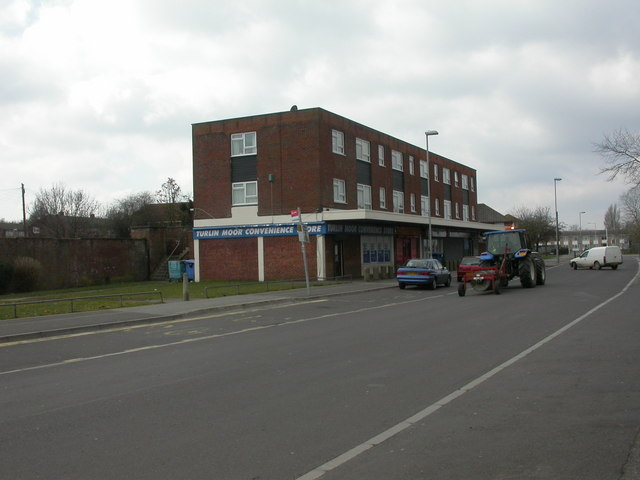 Turlin Moor Convenience Store On Turlin Road. In the same block are also Chinese take-away, café, pizza shop & post office.